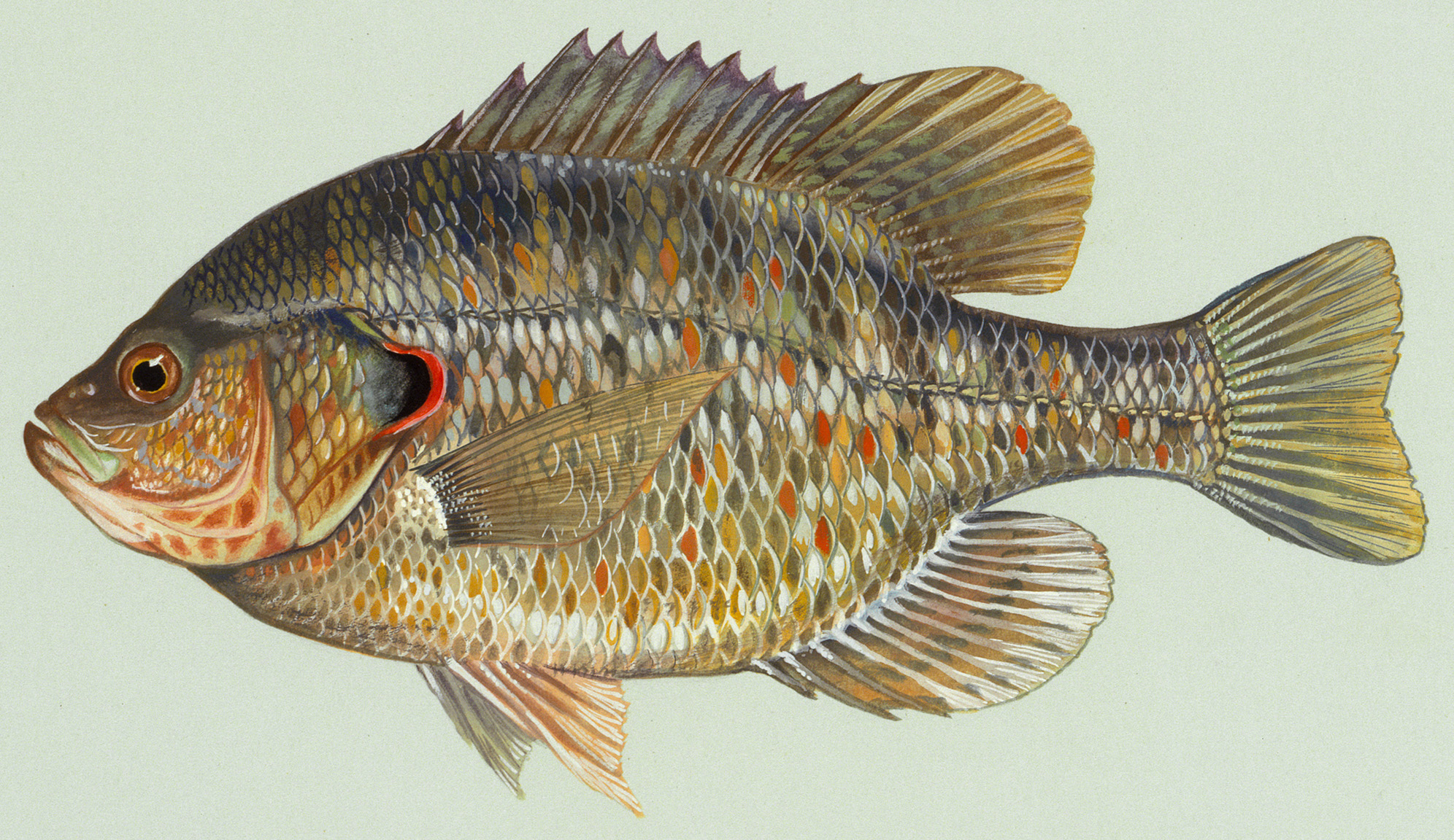 Redear sunfish (Lepomis microlophus).